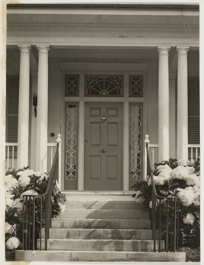 Entrance to "Eryldene" in Gordon, Sydney